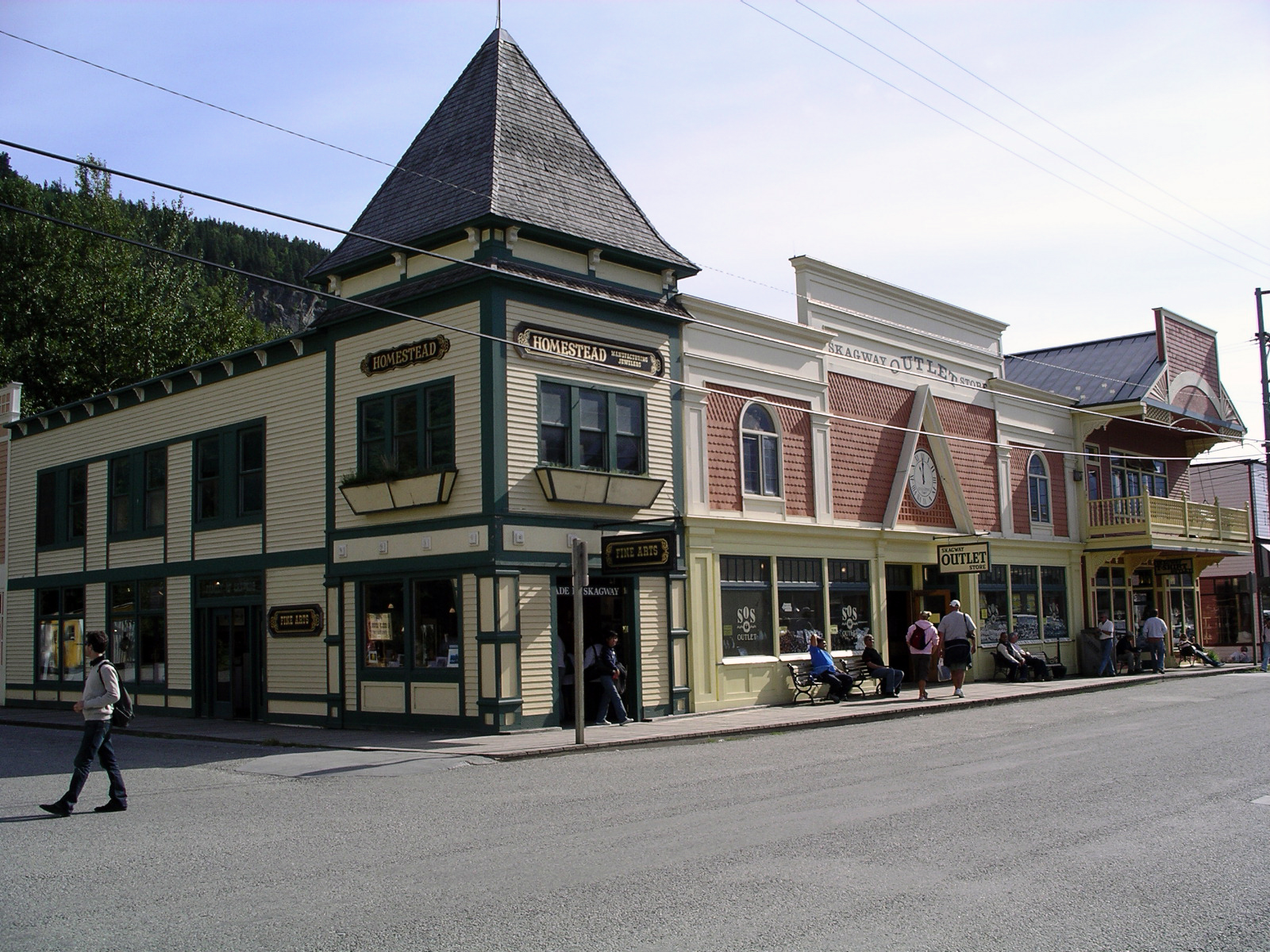 Welcome to the Red Onion Saloon!